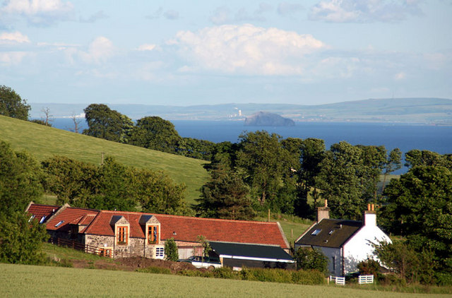 East Neuk The East Neuk of Fife, looking out over the River Forth to East Lothian. With the Bass Rock in the centre. To the left of the Bass rock is Oxwell Mains cement plant at Dunbar and further to the left at the 2nd last tree can be seen Torness power station